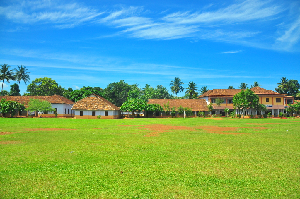 NSS HS for Boys changanasery